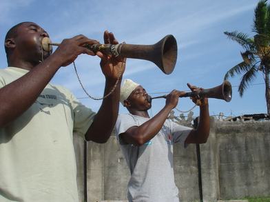 Pemba traditional Parade (Gehende) This is an image of music and dance from Tanzania